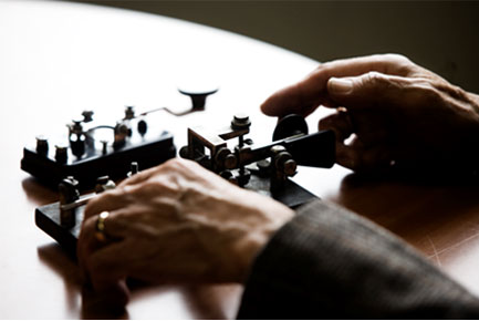 MinTIC, Ministerio TIC